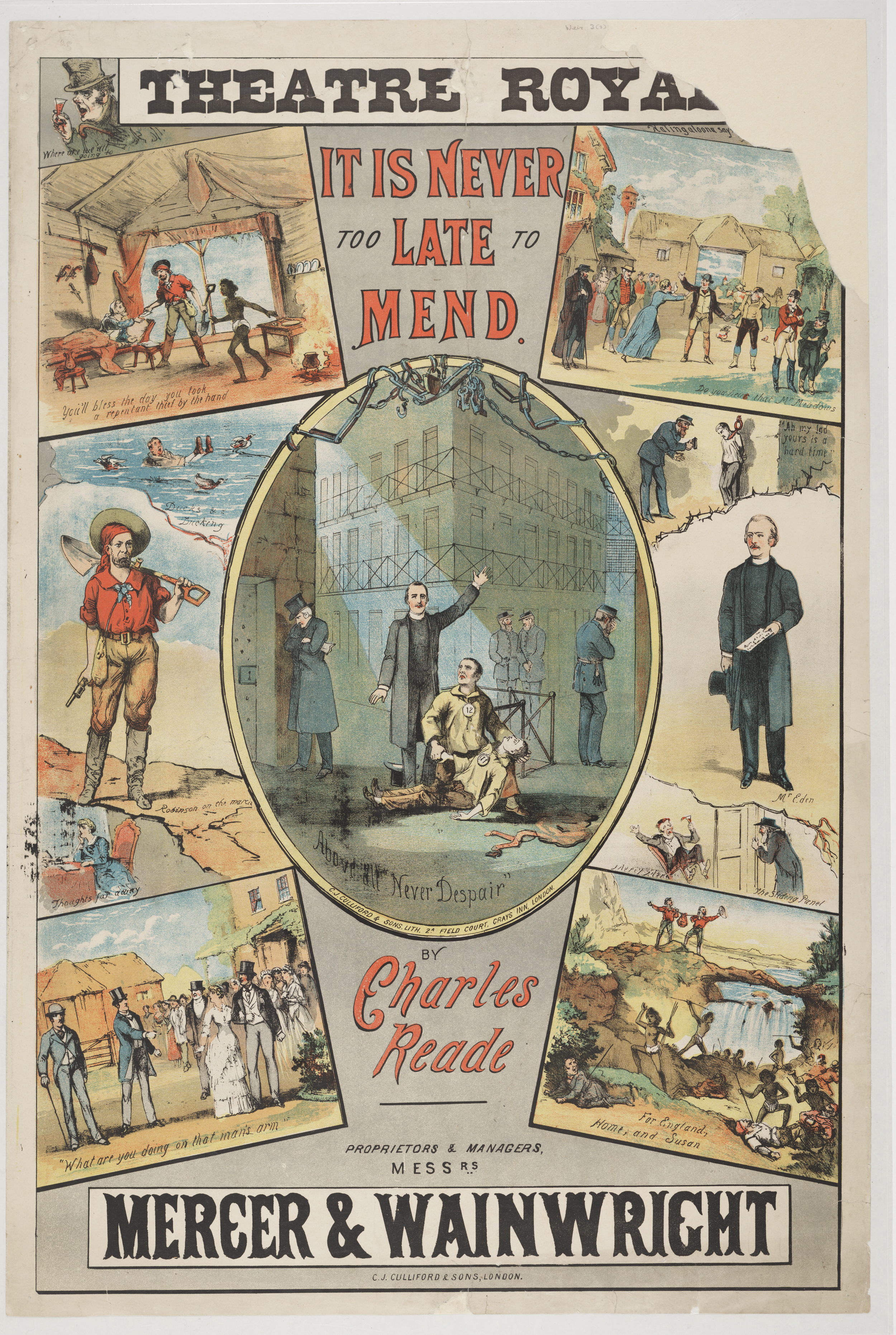 Theatre Royal. It is never too late to mend, by Charles Reade. Proprietors & Managers, Messrs. Mercer & Wainwright. Printed by C.J. Culliford & Sons, Lithographer, 2A Field Court, Crays Inn, London.